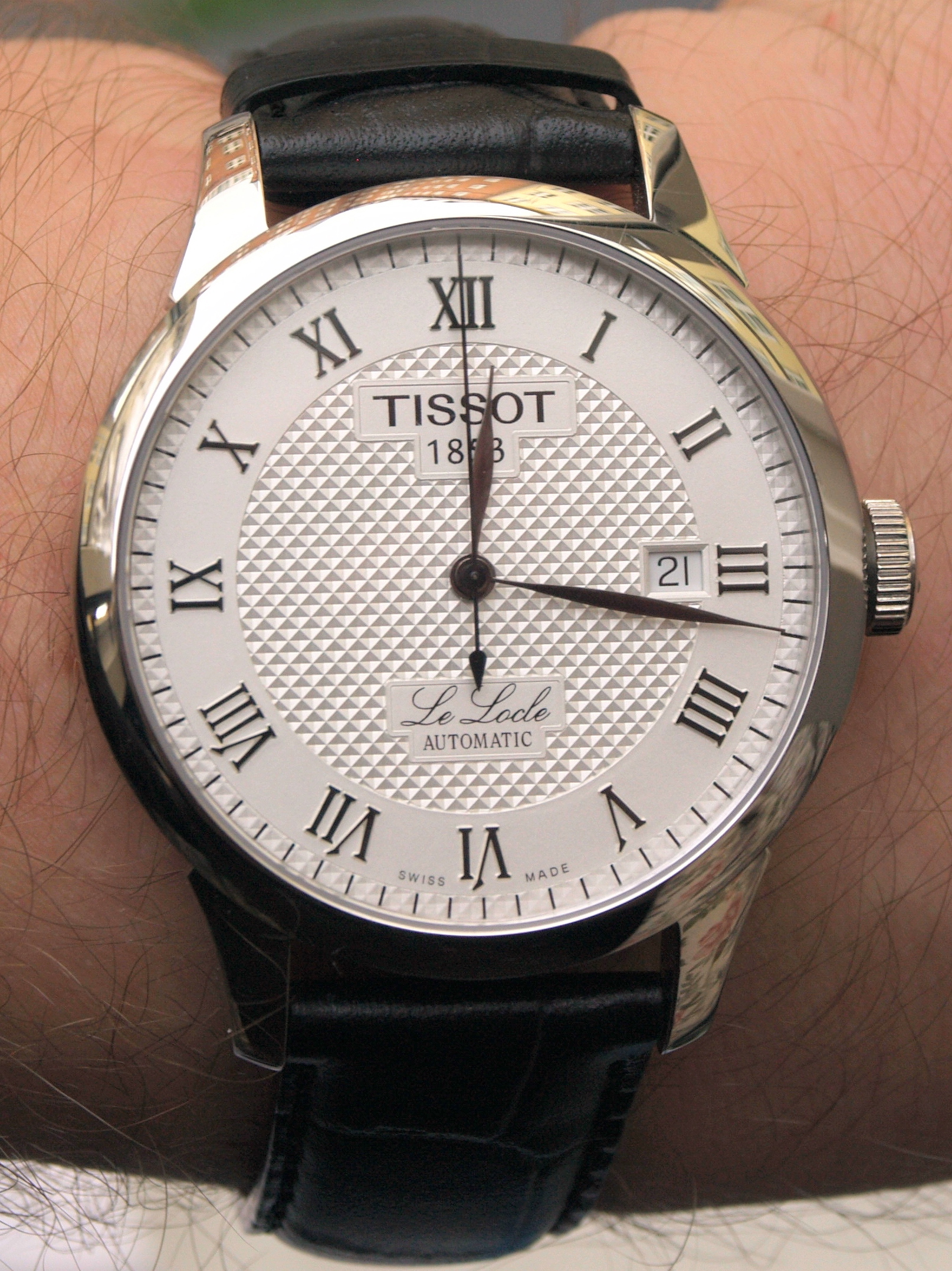 Le Locle watch from Tissot